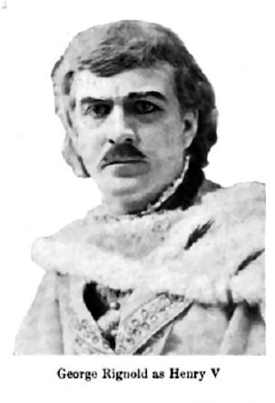 Actor George Rignold as Henry V